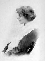 Eleanor Farjeon